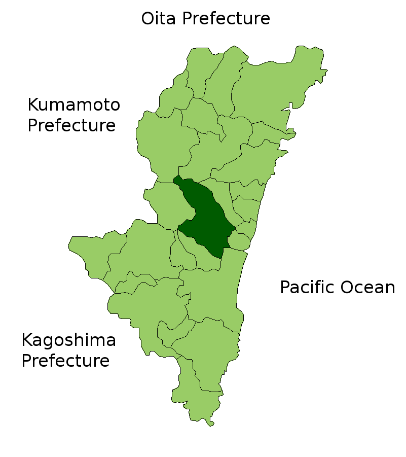 Location Map of Saito in Miyazaki Prefecture, Japan